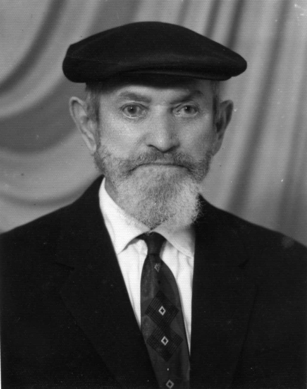 Asher Zelig Gershoni 1